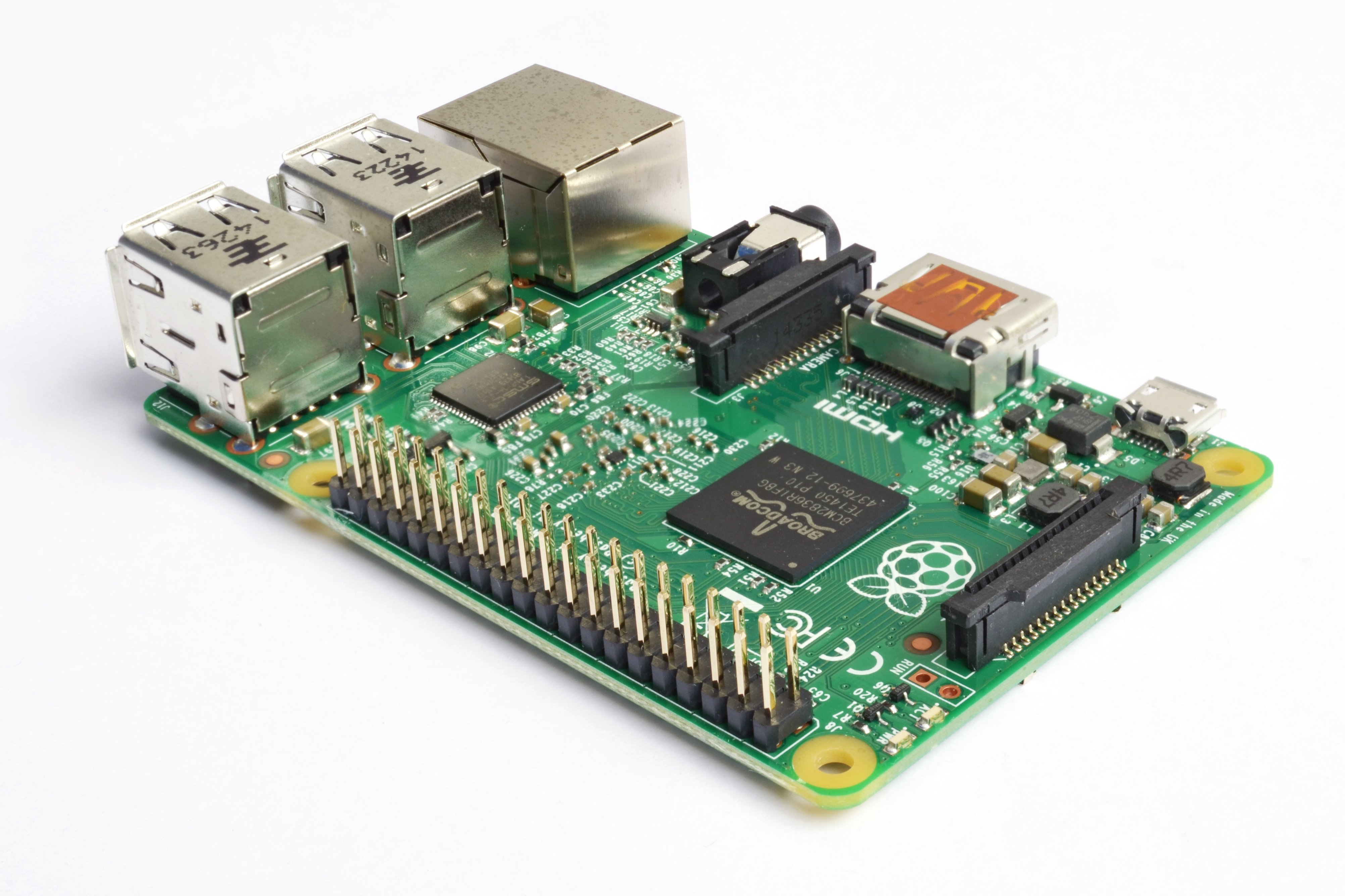 Top half of Raspberry Pi 2 Model B v1.1 seen from rear at angle. (Ordered the day after it came out- on Tue 3 Feb 2015- and received a couple of days after that. This one was supplied by CPC/Farnell and "Made in the UK")